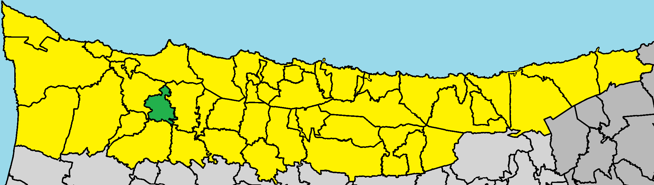 Kampyli in Kyrenia District (de jure).